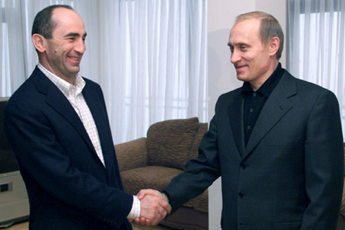 ALMATY. President Vladimir Putin with Armenian President Robert Kocharian.